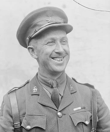 Major Georges P. Vanier of the 22nd Battalion. He became Canada's 19th Governor General, serving from 1959 to 1967.